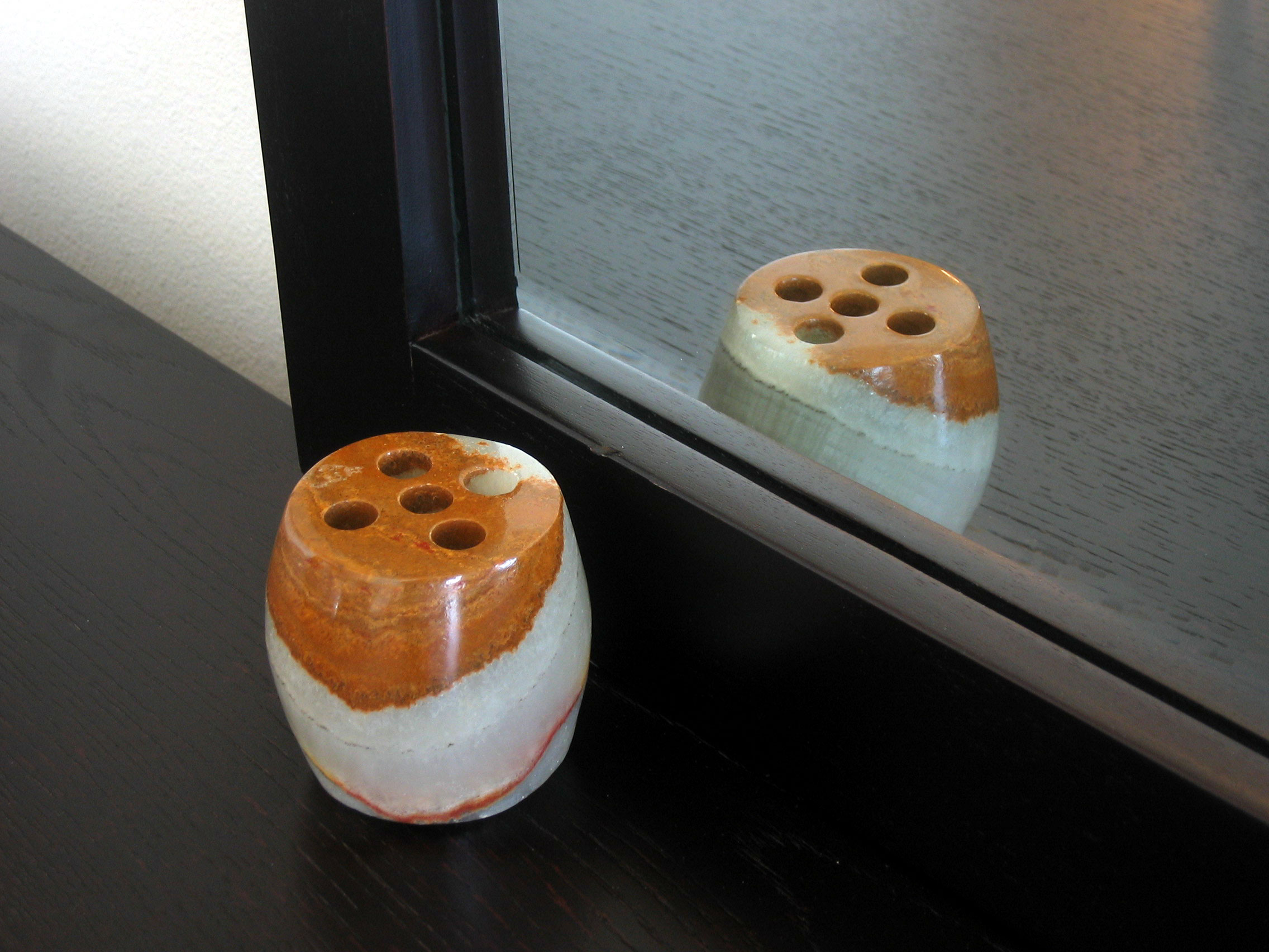 A pencil holder with no pencils, and its reflection in a mirror.